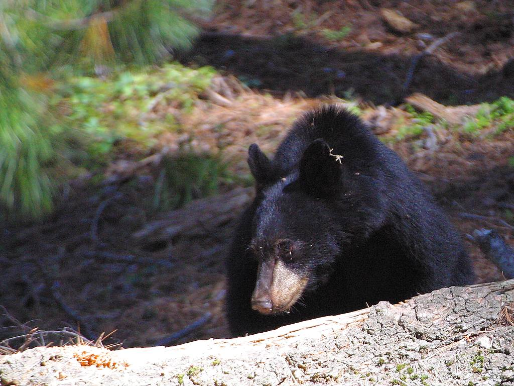 An ursus americanus specimen looking for something on the ground. Photo taken in the Sequoia forest in the USA.